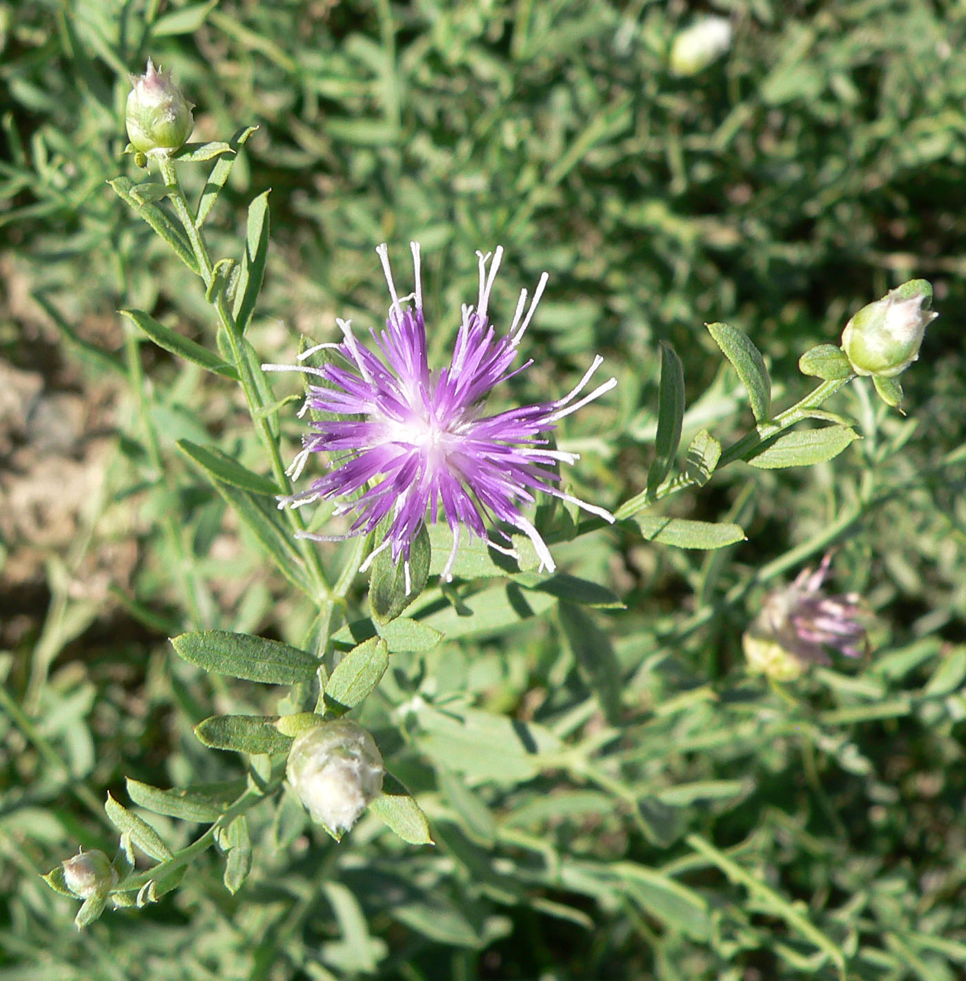 Rhaponticum repens (syn. Acroptilon repens) near Cold Creek Fire Station, Spring Mountains, southern Nevada (elev. about 1800 m)